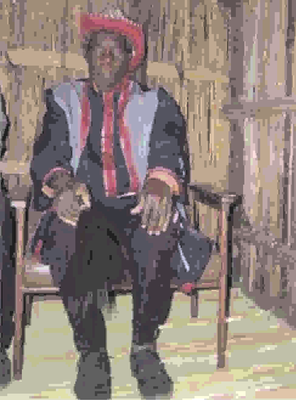 The first Mbunda Chief to migrate with his people to Barotseland from Mbundaland, now part of Angola in 1795.